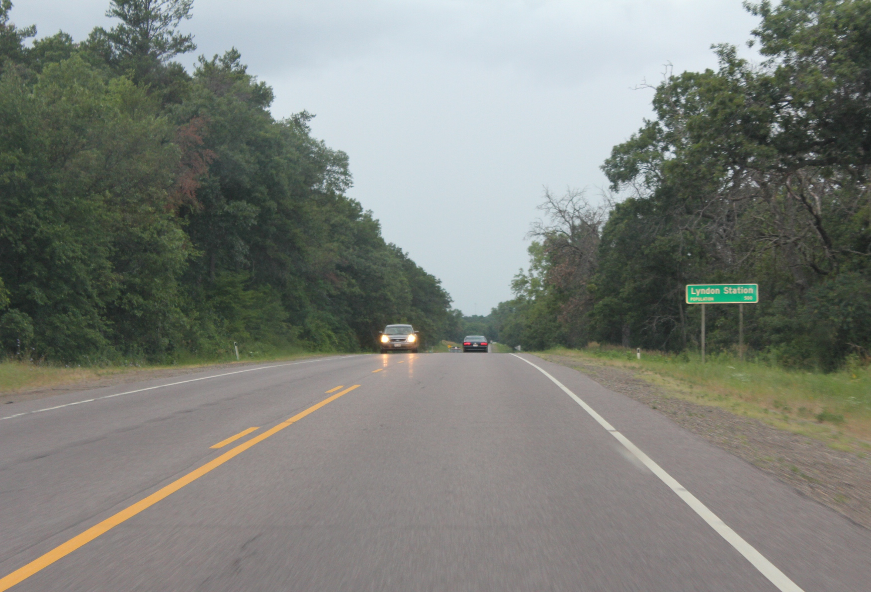 The sign for Lyndon Station, Wisconsin on U.S. Route 12 / Wisconsin Highway 16.